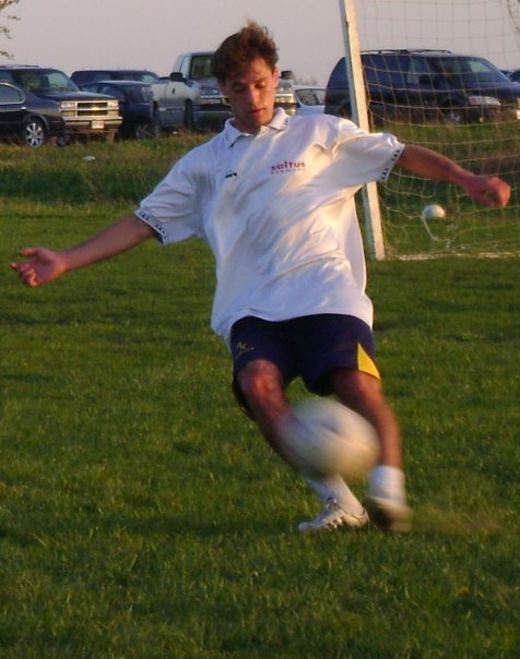 Kilian Elkinson with Darlington Impact in 2009.